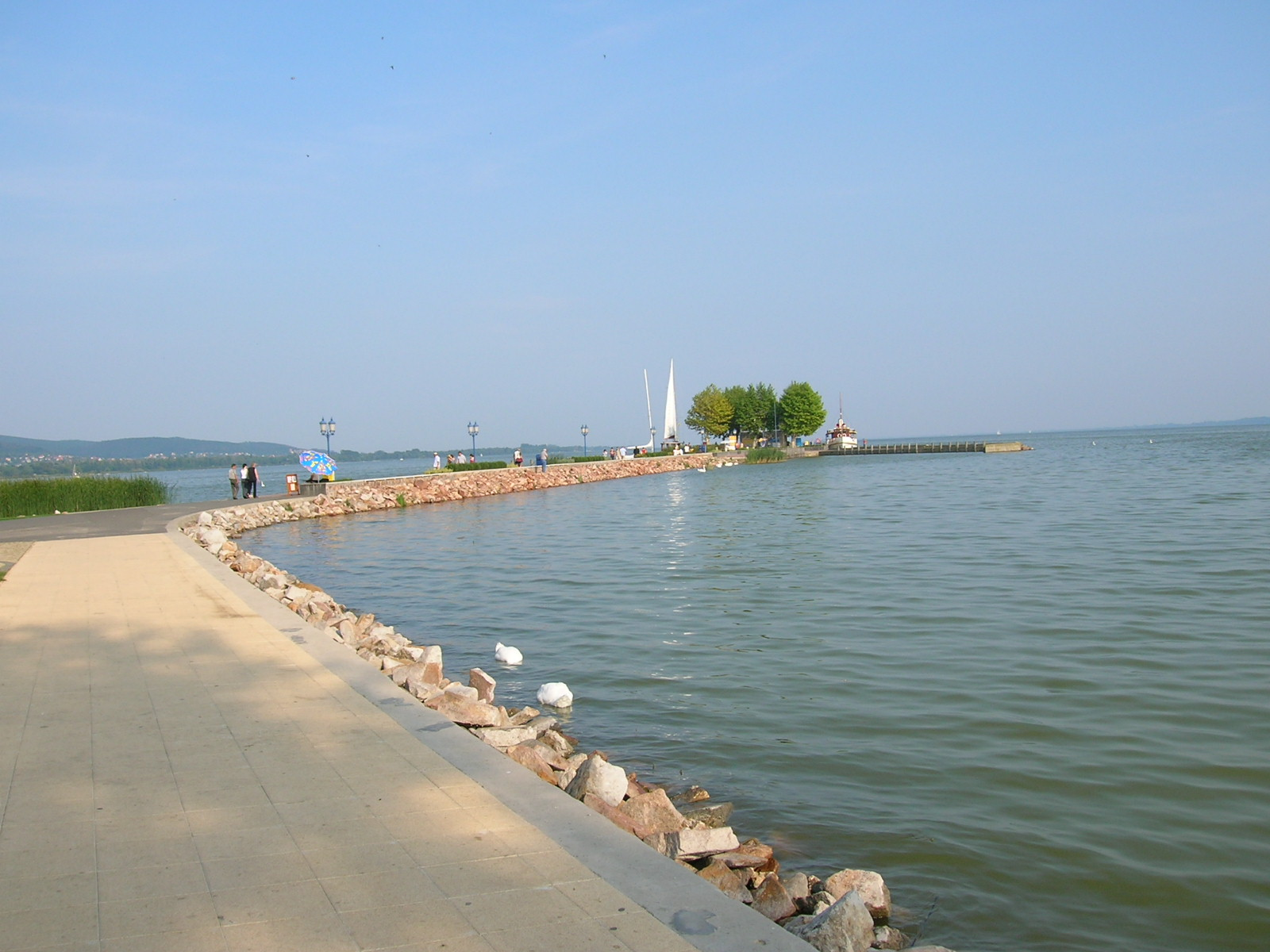 Lake Balaton at Keszthely, Hungary.